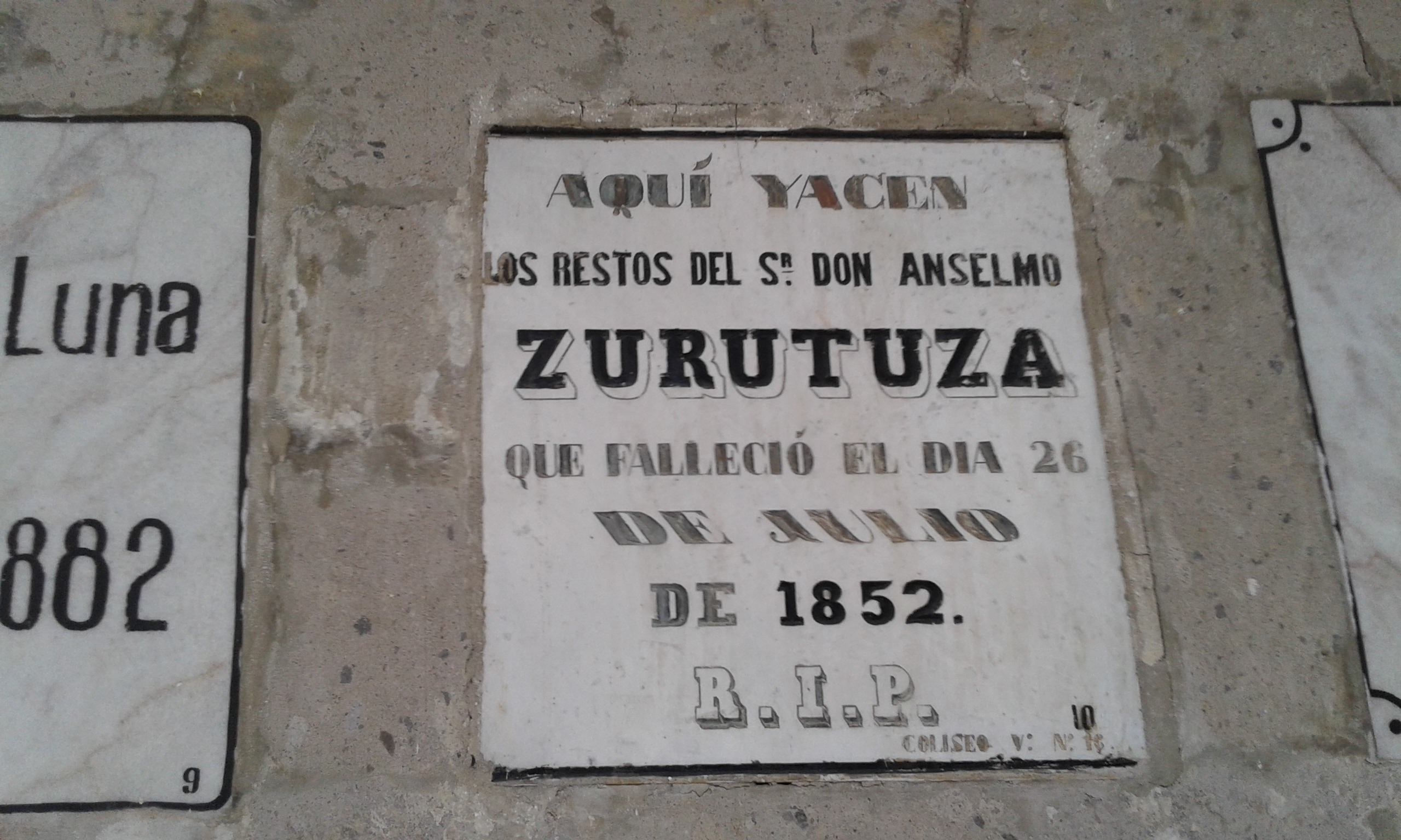 Nicho de Anselmo Zurutuza en el Panteón de San Fernando de la Ciudad de México.